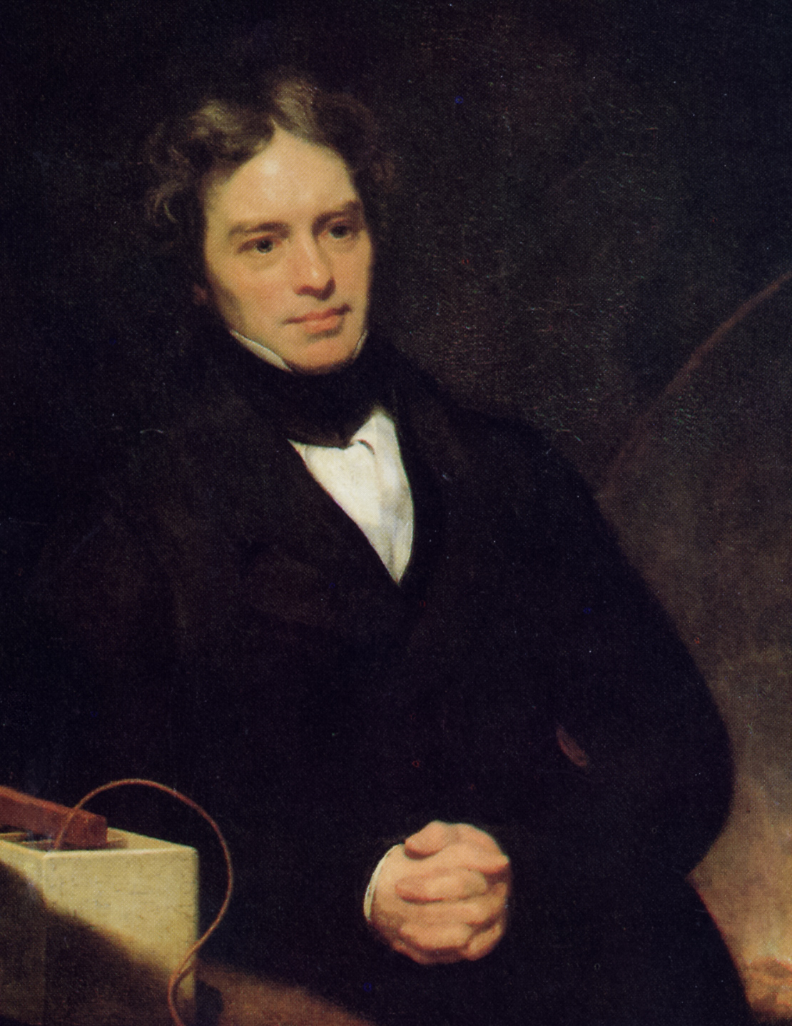 Michael Faraday by Thomas Phillips oil on canvas, 1841-1842 35 3/4 in. x 28 in. (908 mm x 711 mm) Purchased, 1868 NPG 269